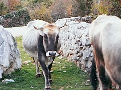 Busha - Balkanic breed of cattle